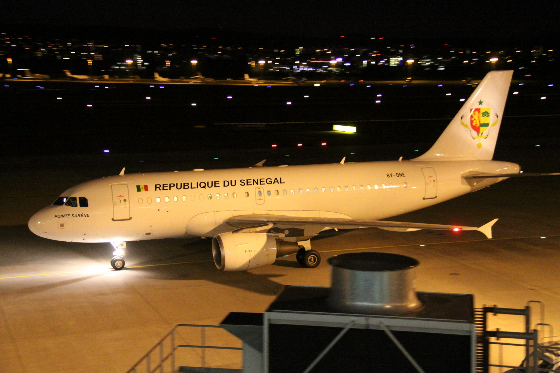 At Zurich Kloten International Airport